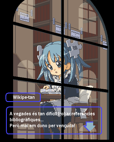 Wikipe-tan_the_Library_of_Babel_Catalan